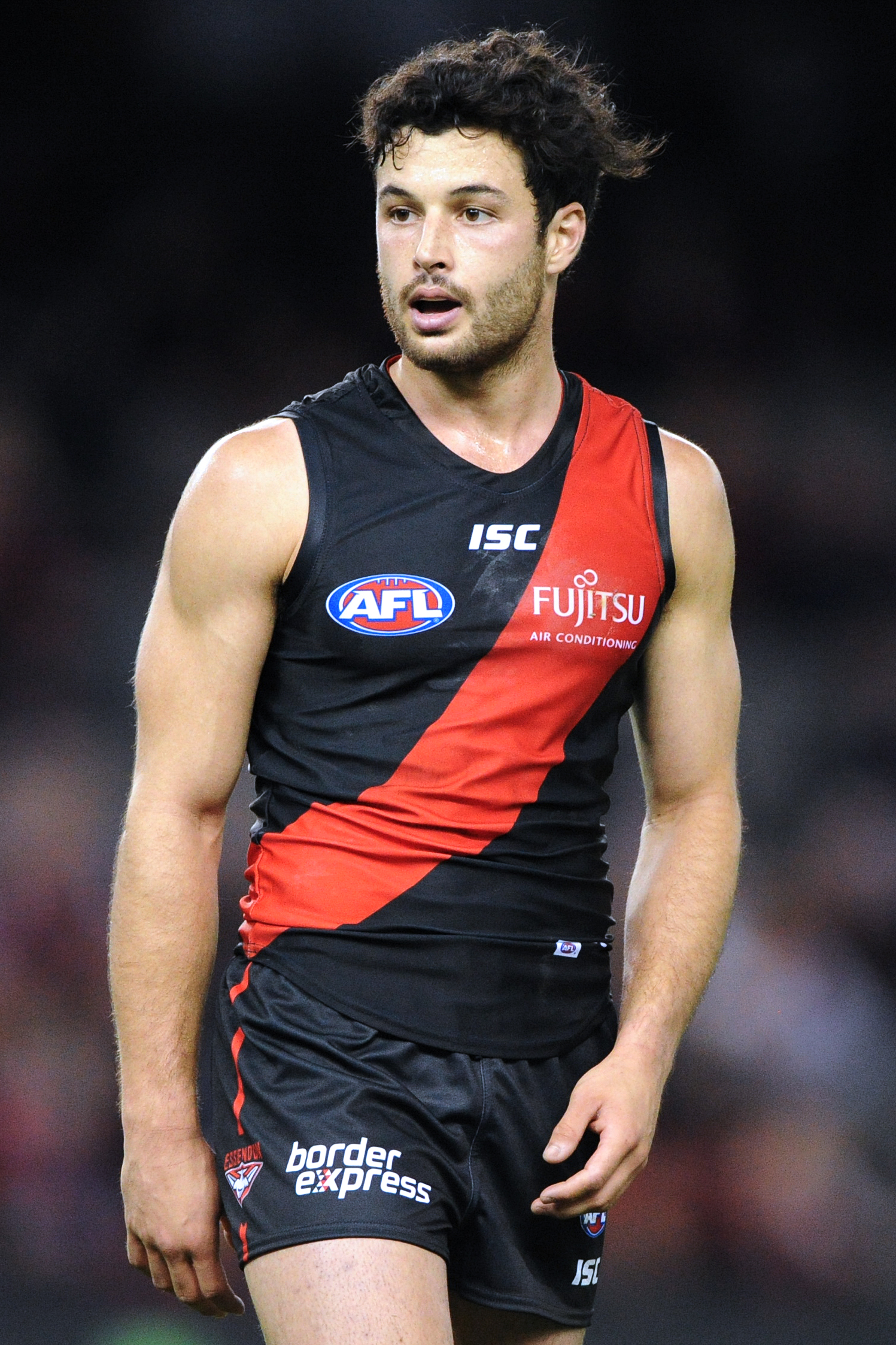 Ben McNiece of Essendon during the 2018 AFL round 6 match between Essendon and Melbourne at Etihad Stadium on Sunday, 29 April 2018 in Melbourne, Victoria.